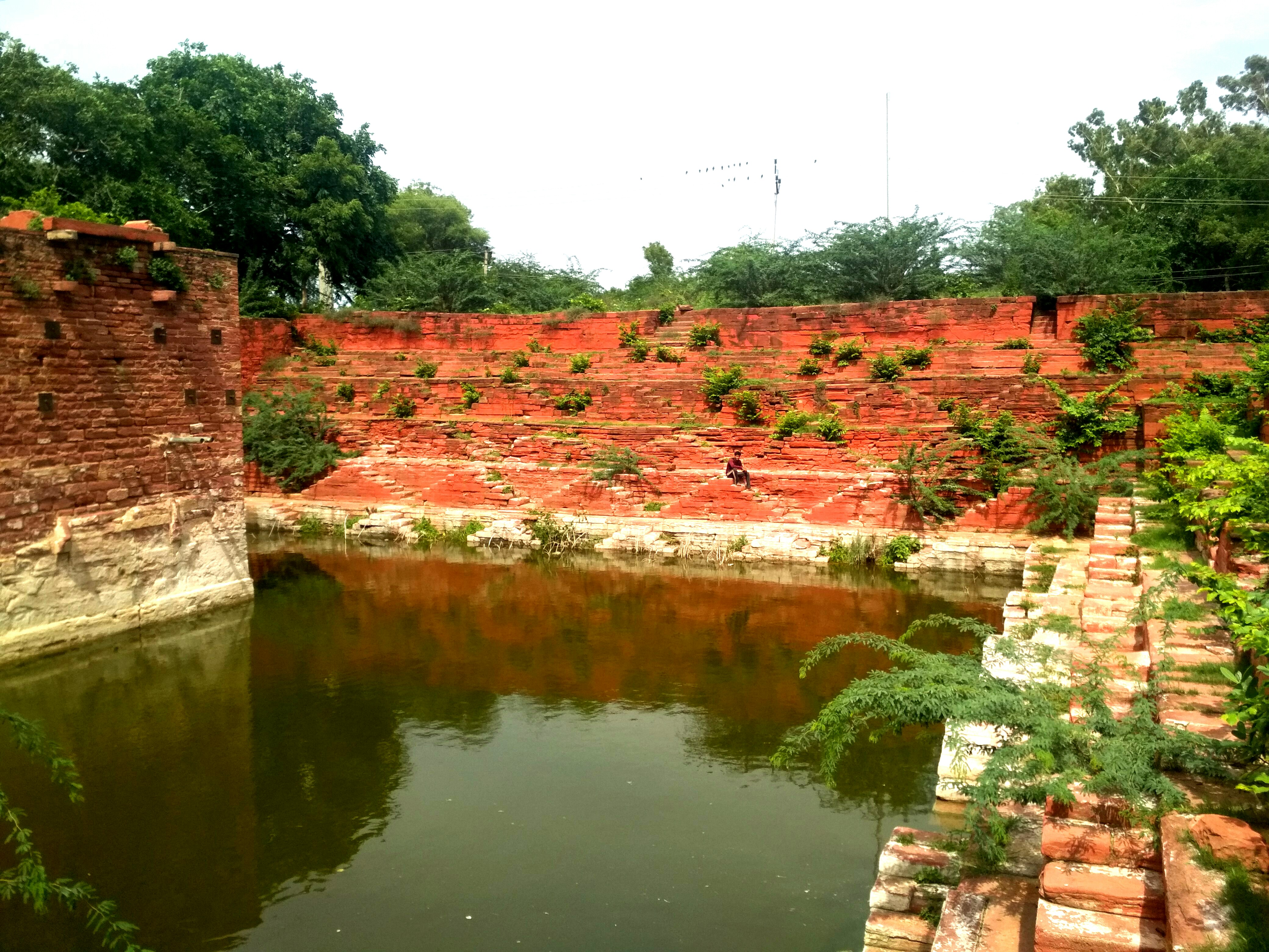 Jaccha ki baori is the largest stepwell at Prahlad kind in Hindaun city. It is a Ancient historical landmark and have a good wonderful true story.